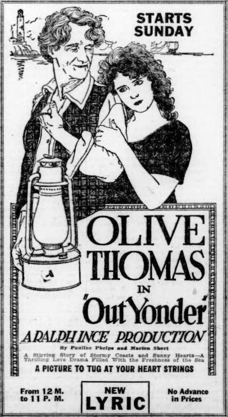 Newspaper ad for the American film Out Yonder (1919) with Olive Thomas, on page 13 of the January 24, 1920 Duluth Herald.